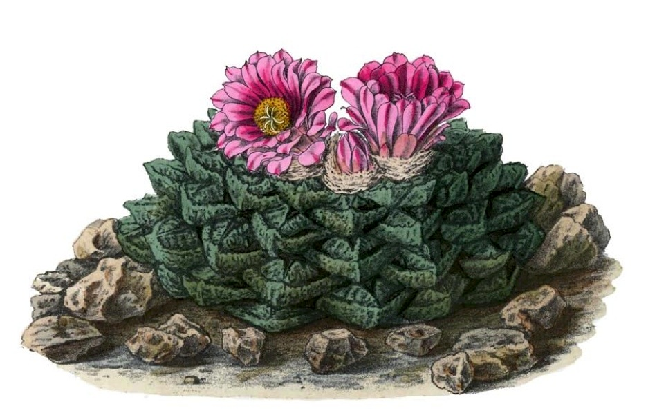 Ariocarpus fissuratus